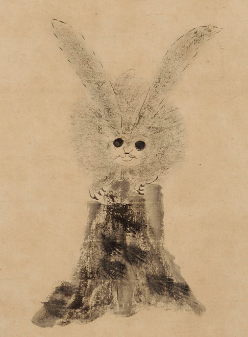 ink brush painting